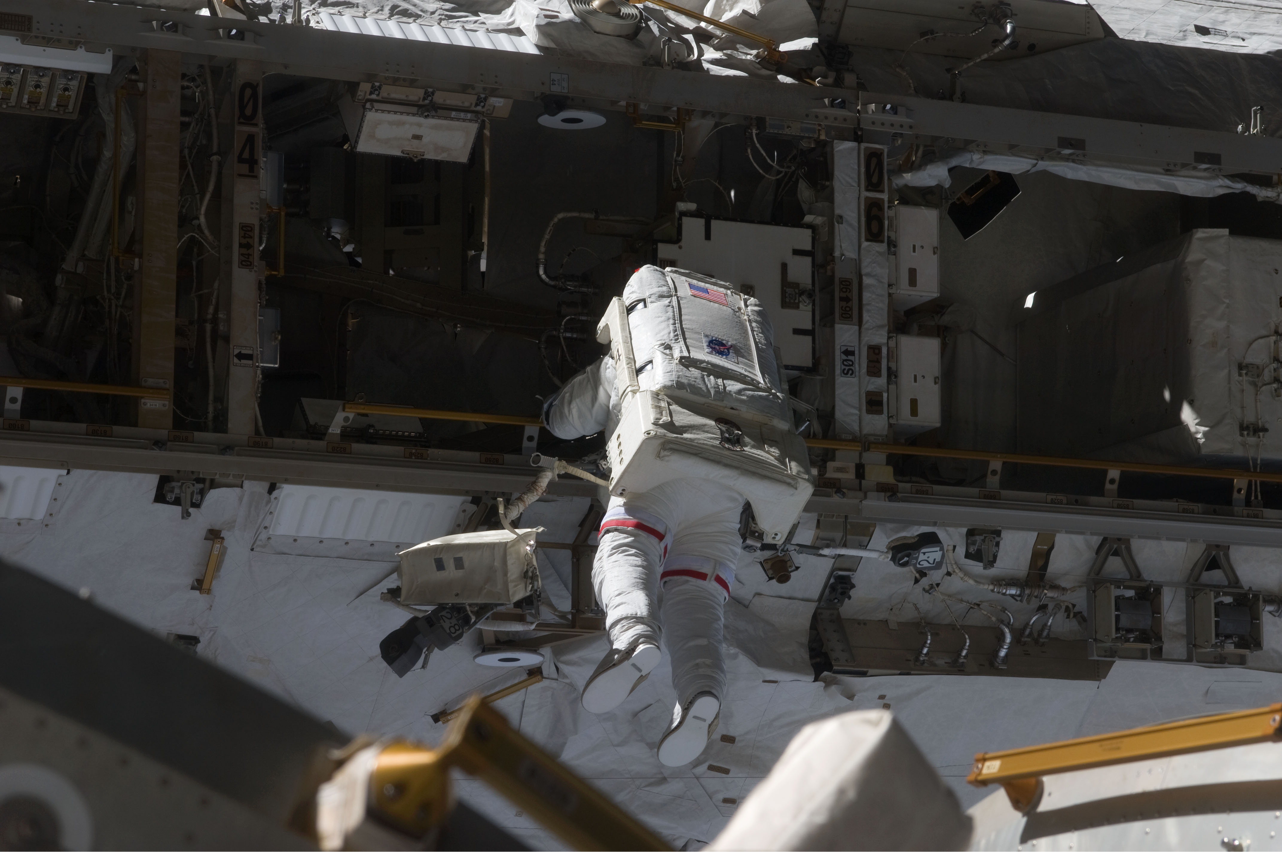 Astronaut Steve Swanson, STS-119 mission specialist, participates in the mission's second scheduled session of extravehicular activity (EVA) as construction and maintenance continue on the International Space Station. During the six-hour, 30-minute spacewalk Swanson and astronaut Joseph Acaba (out of frame), mission specialist, prepared a worksite so the STS-127 spacewalkers can more easily change out the Port 6 truss batteries later this year. On the Japanese Kibo laboratory they installed a second Global Positioning Satellite antenna that will be used for the planned rendezvous of the Japanese HTV cargo ship in September. They photographed areas of radiator panels extended from the Port 1 and Starboard 1 trusses and reconfigured connectors at a patch panel on the Zenith 1 truss that power Control Moment Gyroscopes.